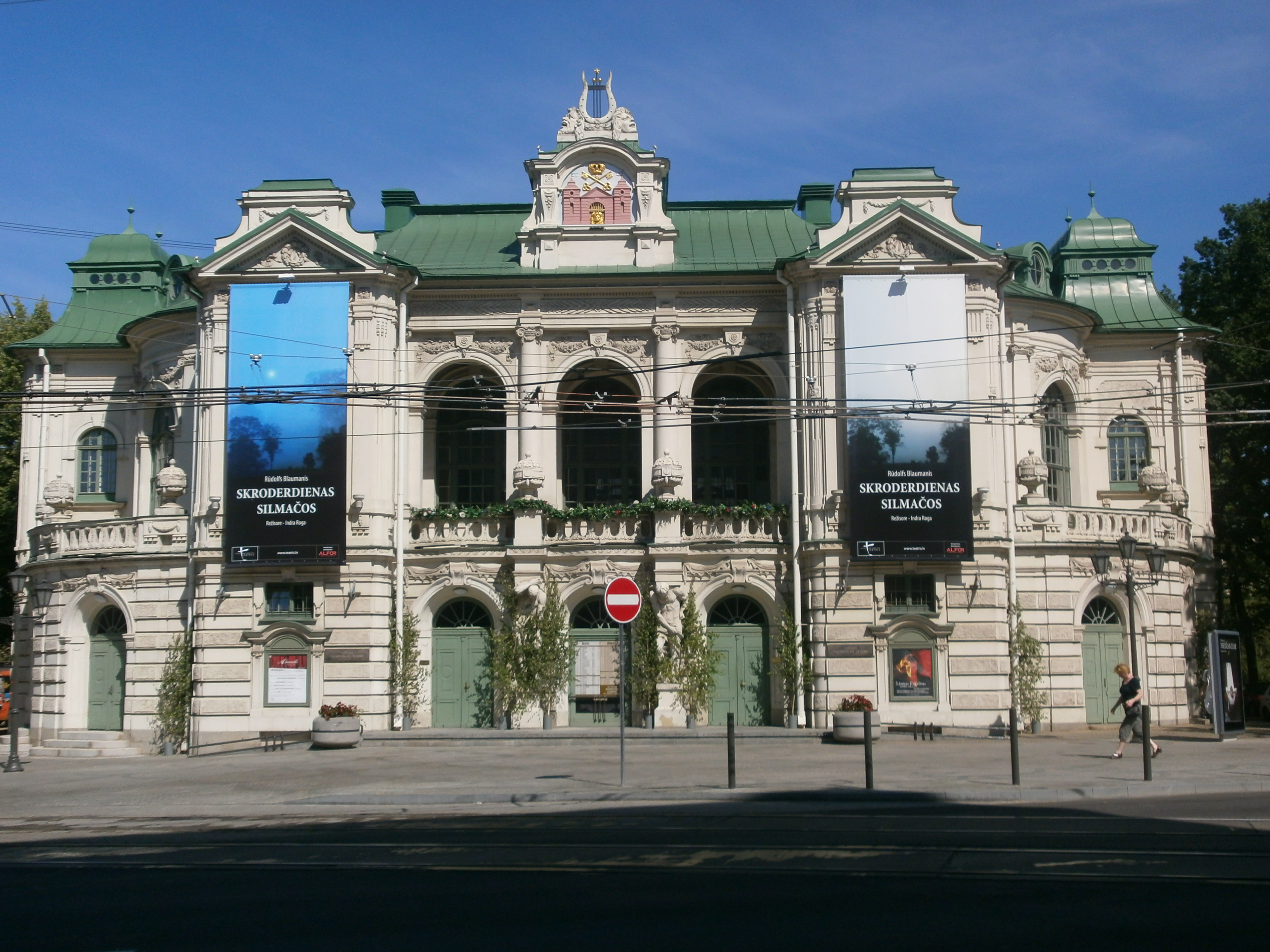 Latvian National Theatre